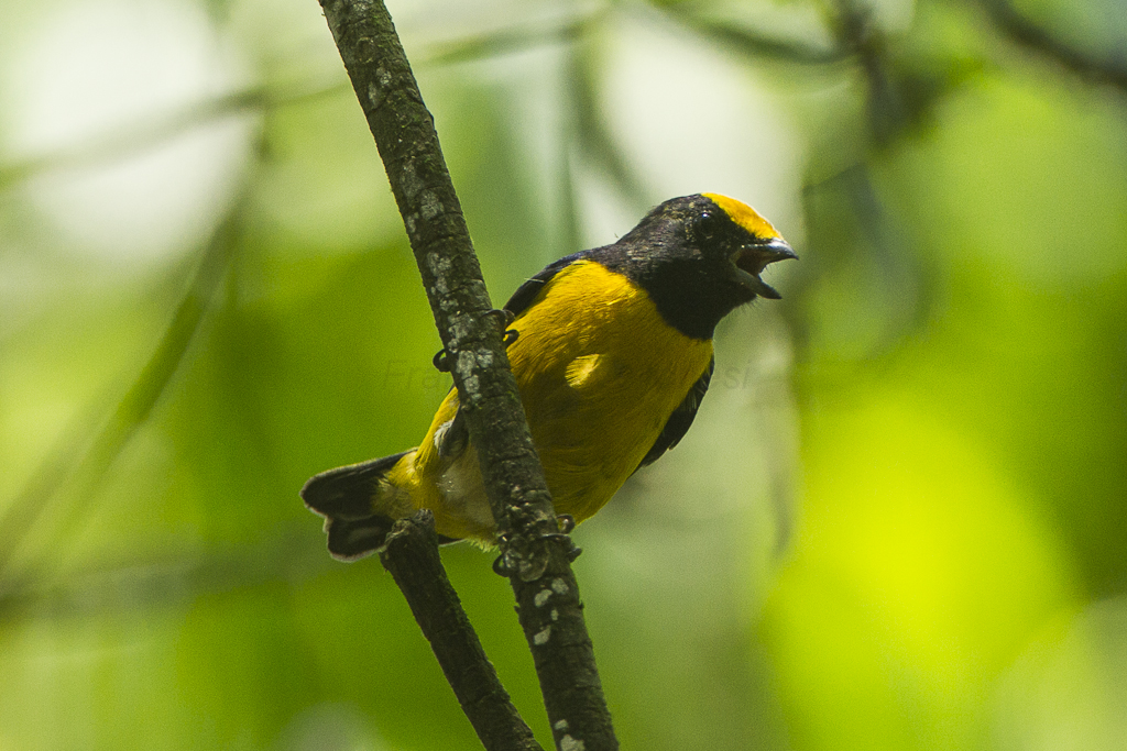 Orange-bellied Euphonia - REGUA - Brazil_S4E2891